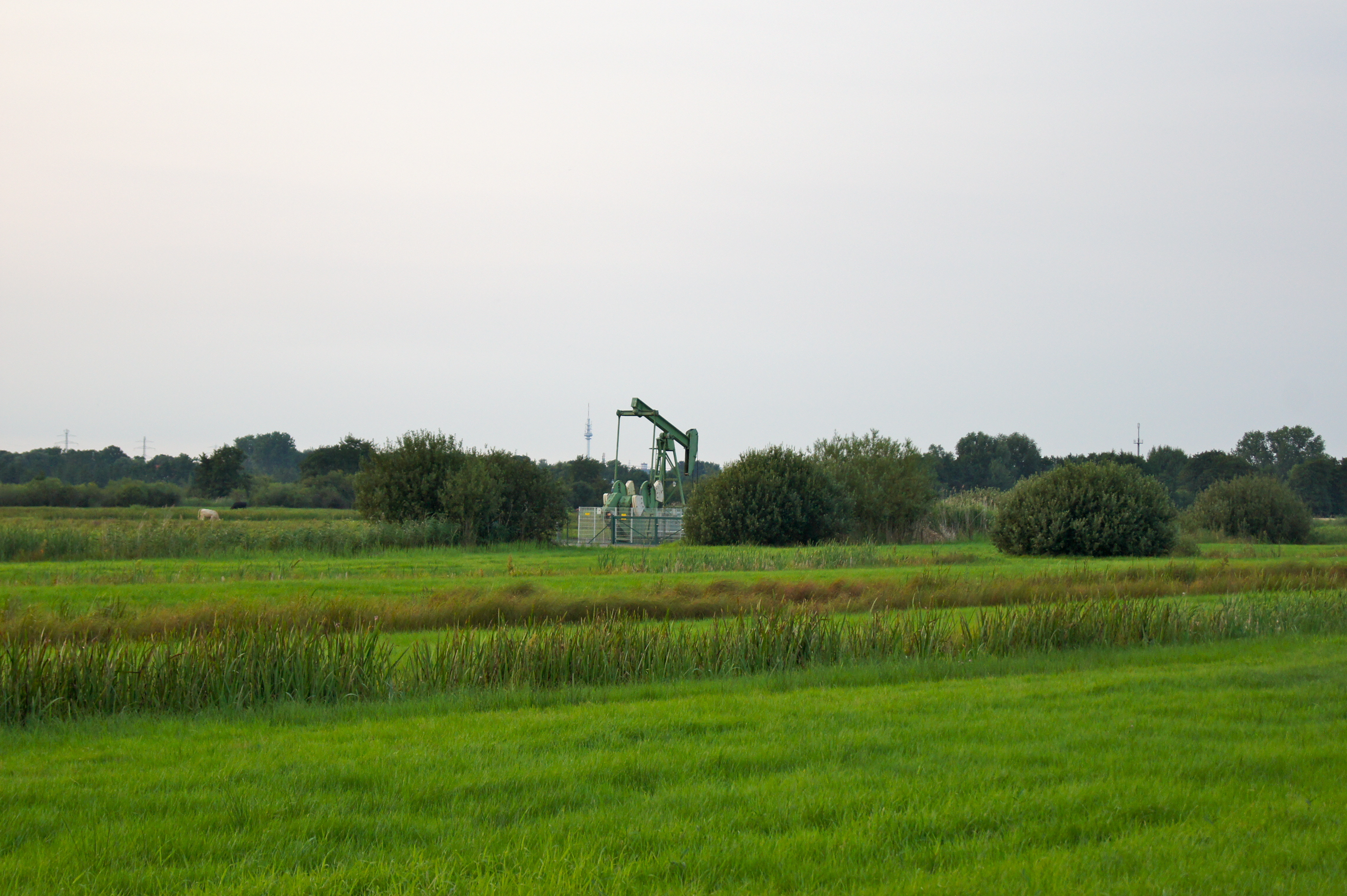 Hamburg (Neuengamme), Germany: Pumpjack in the Kirchwerder Wiesen